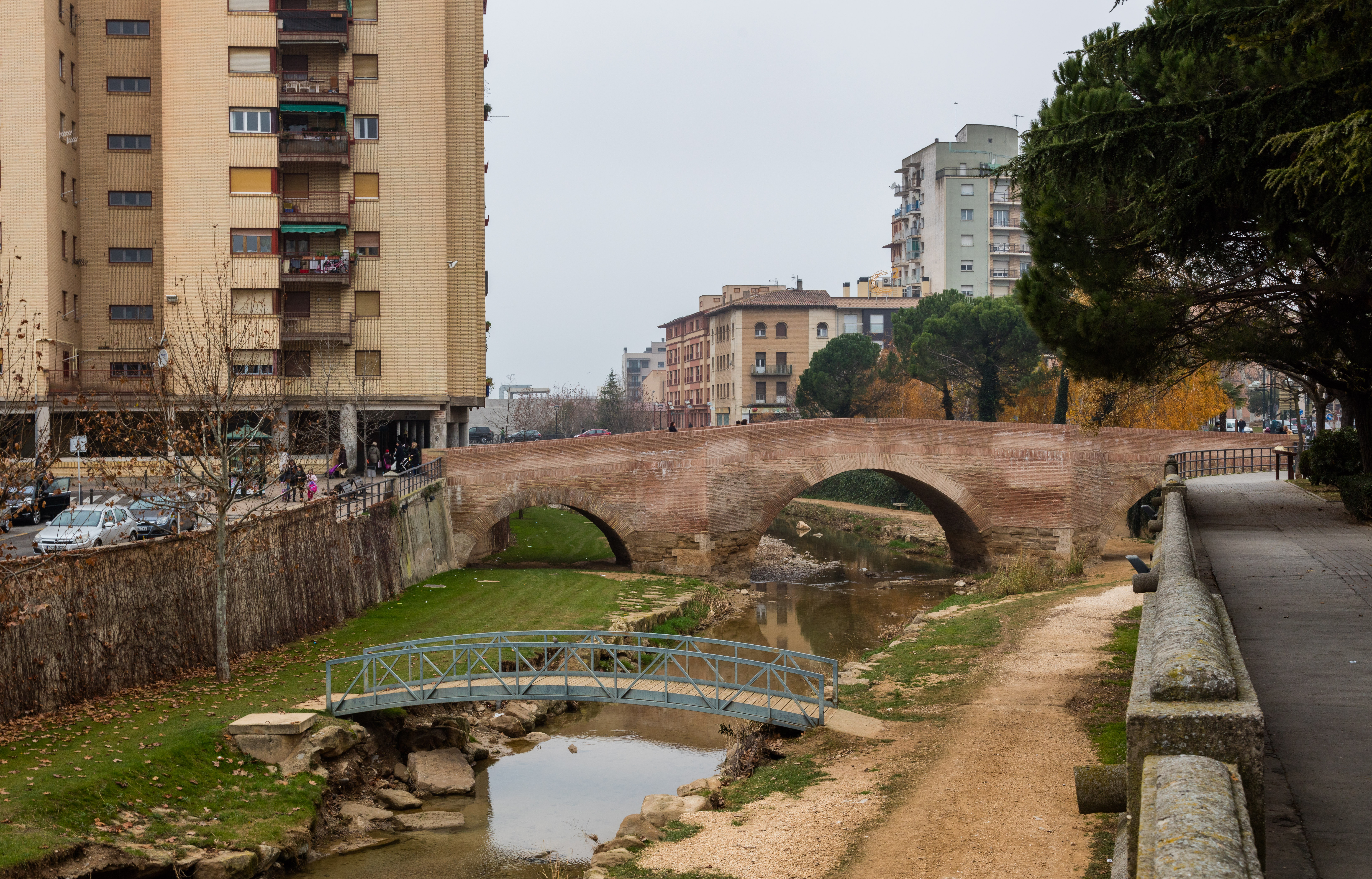 Old Bridge, Monzón, Spain